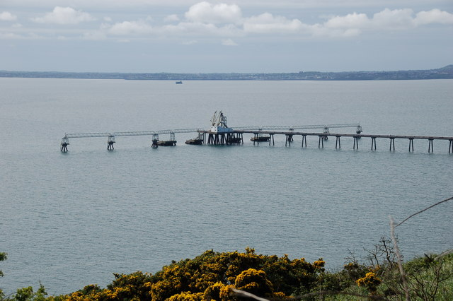 Cloghan jetty, Belfast Lough. Cloghan jetty and the nearby Kilroot power station were planned and built during the early 1970's. The jetty was for use by oil tankers. The great oil crisis caused a change of plan and the station, now dual oil and coal-fired, uses mainly coal transshipped from Hunterston on the Clyde. The jetty is now used infrequently.